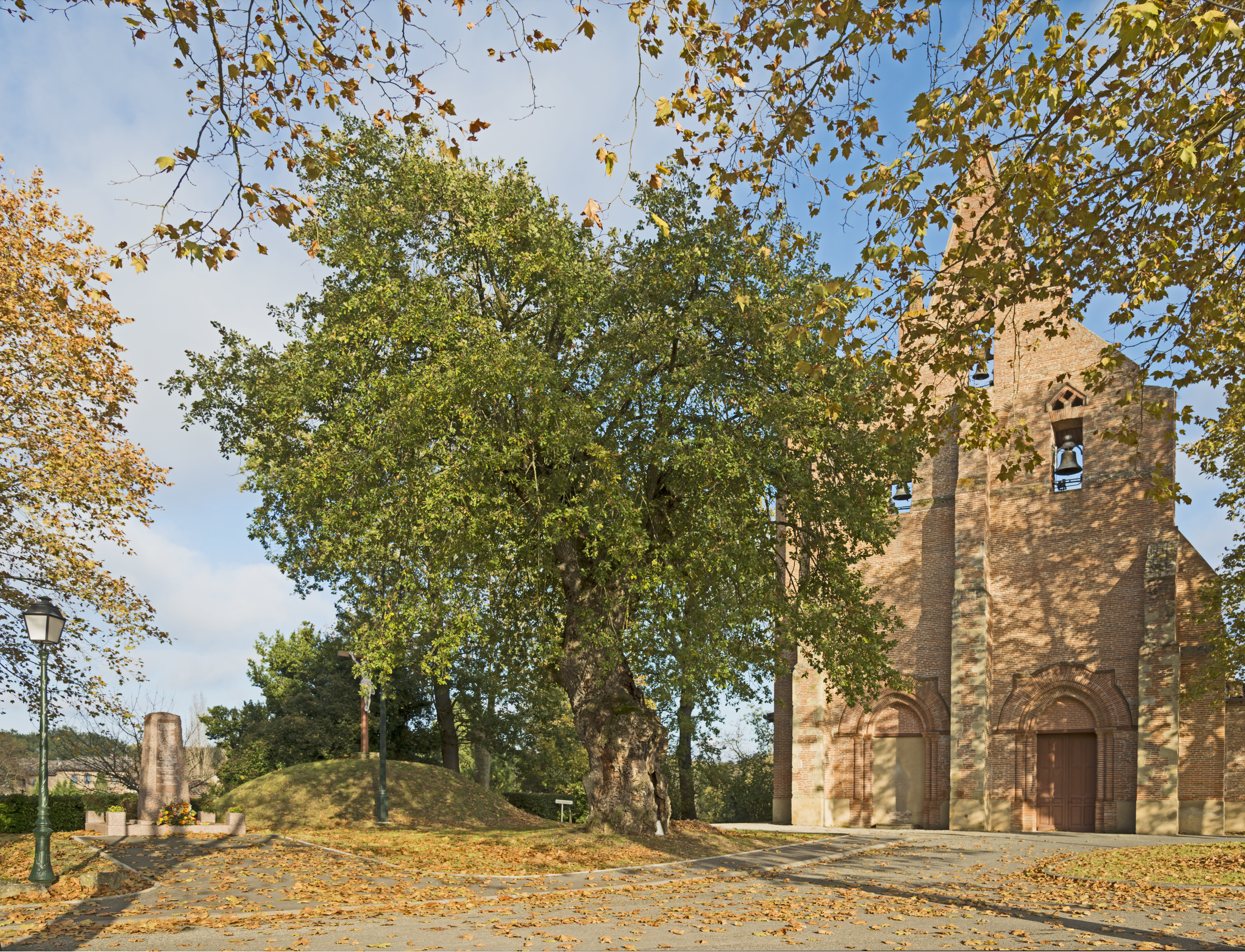 Villariès Haute-Garonne, France. Memorial, the oak "of Sully" (sixteenth century), the church (fifteenth century).